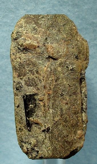 Anorthoclase Locality: Mt Erebus, Ross Island, Victoria Land, Eastern Antarctica, Antarctica (Locality at ) Size: 4.5 x 2.5 x 1.5 cm. Unless you have been to Antarctica or know someone who has, this is a rarely available mineral species and specimen. This is a euhedral, tannish-gray anorthoclase feldspar crystal from Mt. Erebus, on Ross Island. This flattened, floater crystal is pristine. Mt. Erebus Volcano (3794m) is home to the world’s only persistently convecting anorthoclase-phonolite lava lake. There is only one other place on the planet where these crystals can be found, Mt. Kenya, Africa. Crystals grow in the magma beneath Erebus and get spit out of the mountain inside glassy volcanic bombs. The glass quickly weathers away leaving the mountainside covered in crystals. These crystals are coveted by almost everyone at McMurdo Station. Links to this information were kindly provided by a geologist/neighbor of mine, who spent several field seasons mapping there. This was obtained in a small collection of a geologist, some years ago.